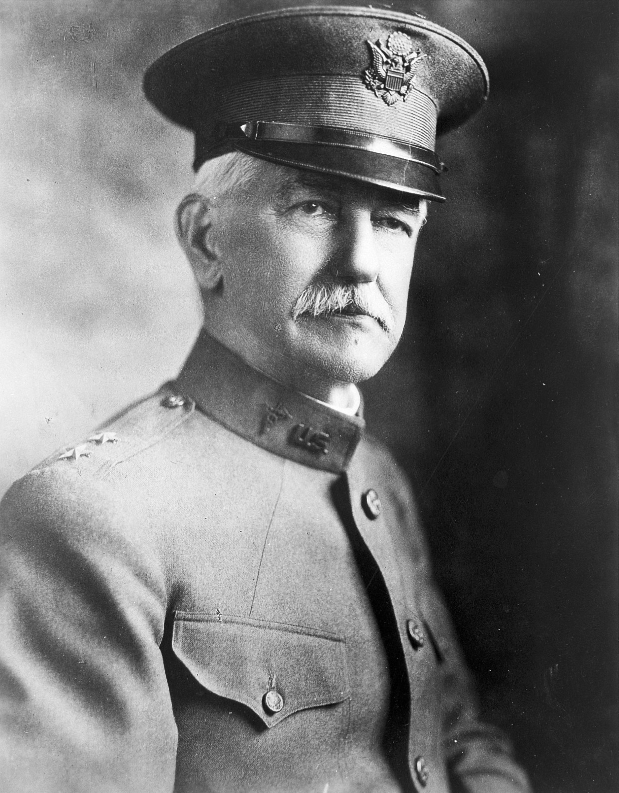 Portrait of William Crawford Gorgas, in military uniform Iconographic Collections Keywords: William Crawford Gorgas